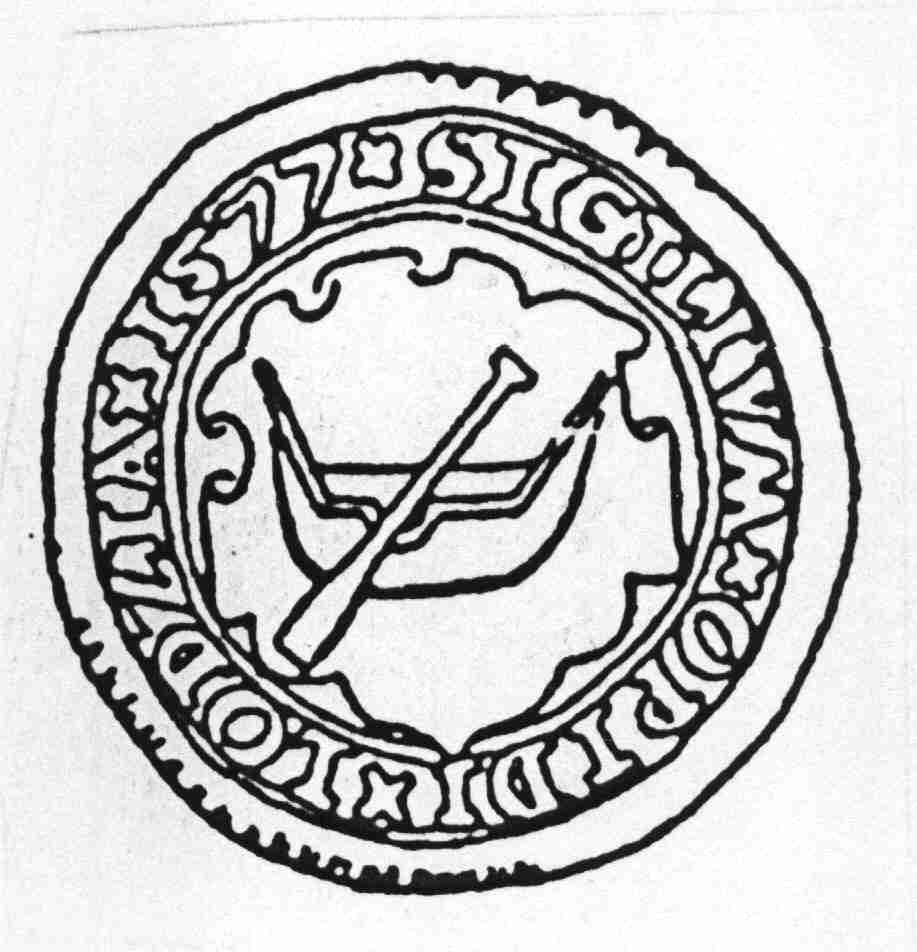 Coat of Arms of Łódź from 1577 Sigillum opidi Lodzia 1577